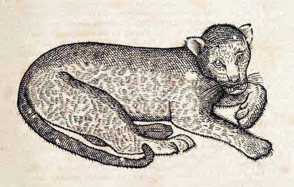 This woodcut is an illustration from the book The history of four-footed beasts and serpents by Edward Topsell, printed by E. Cotes for G. Sawbridge, T. Williams and T. Johnson in London in 1658.